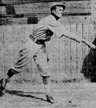 Professional baseball player Elmer Koestner